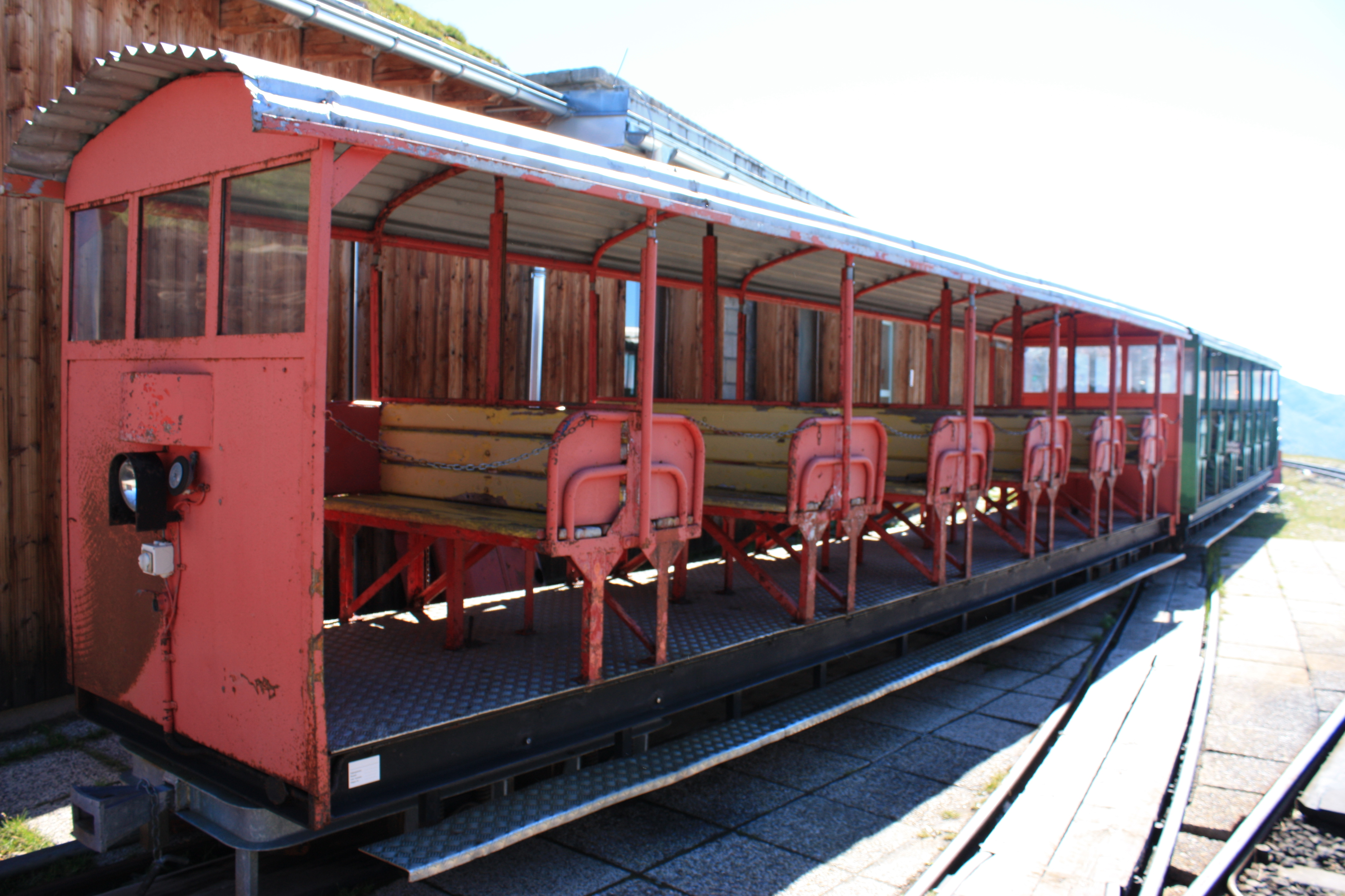 Reißeck-Höhenbahn: Day-tripper-train (out of service) Community:Reißeck